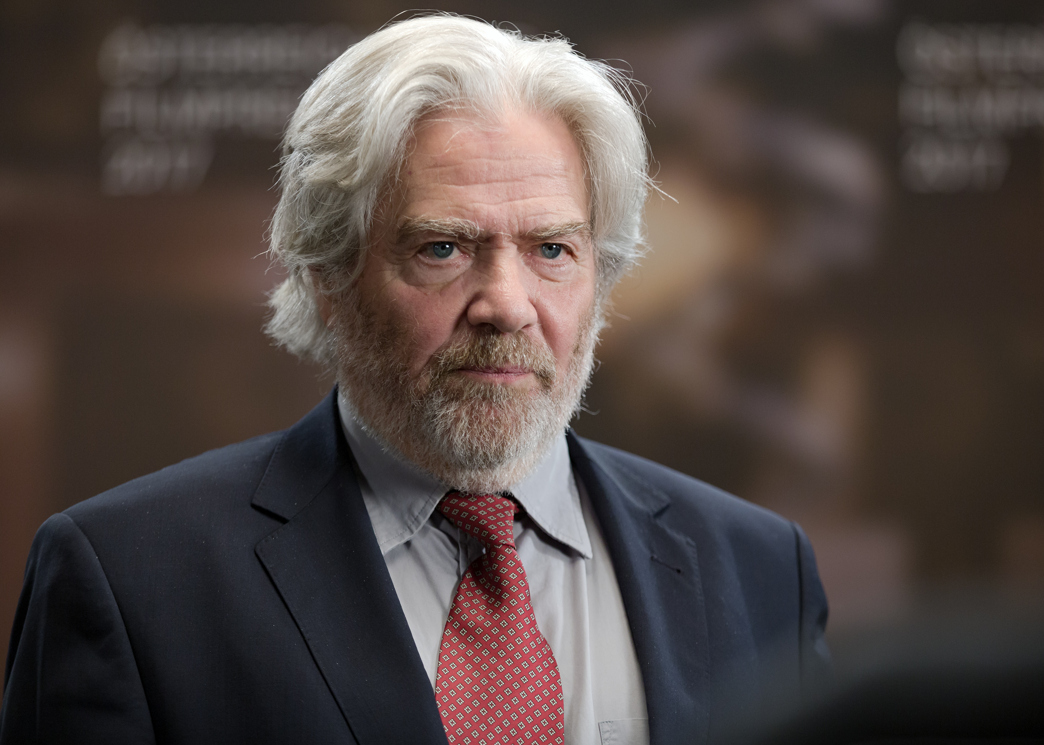 Dieter Berner, director and writer of Egon Schiele: Tod und Mädchen, at the Austrian Film Awards 2017 (Rathaus, Vienna,Austria).